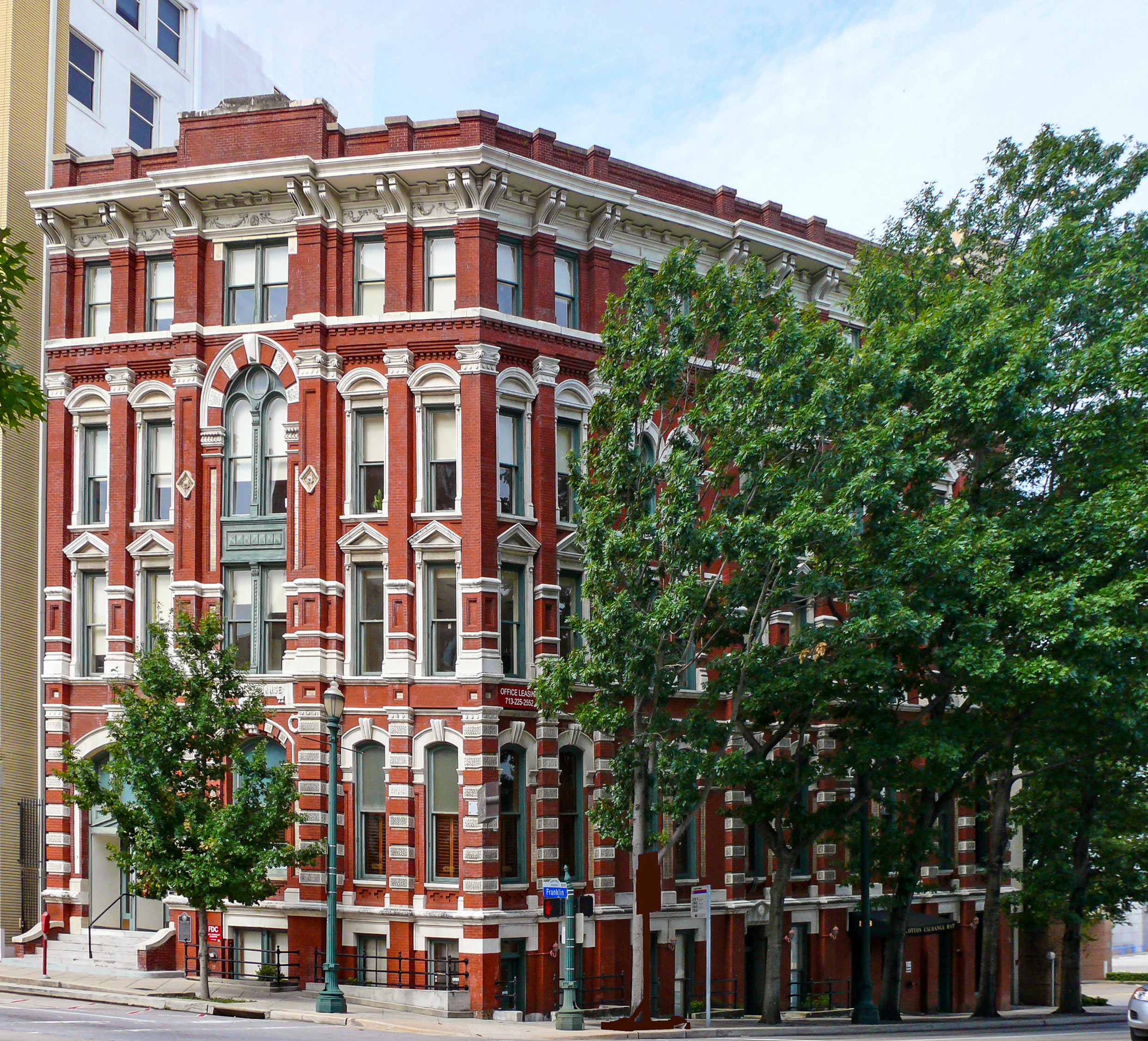 Founded in 1874 to facilitate trade in the expanding cotton market. This Victorian renaissance revival edifice, designed by Eugene T. Heiner, was built in 1884-85 by contractors Max Kosse and James S. Lucas. The exchange room and galleries were situated on the second and third floors, and the first floor contained offices and the exclusive "Houston Club." The basement housed a plush saloon. The structure was remodeled and the fourth floor added in 1907. The exchange vacated the premises in 1924. The building was restored in 1973.